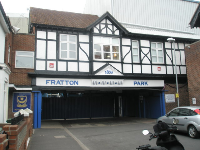 Entrance to Fratton Park